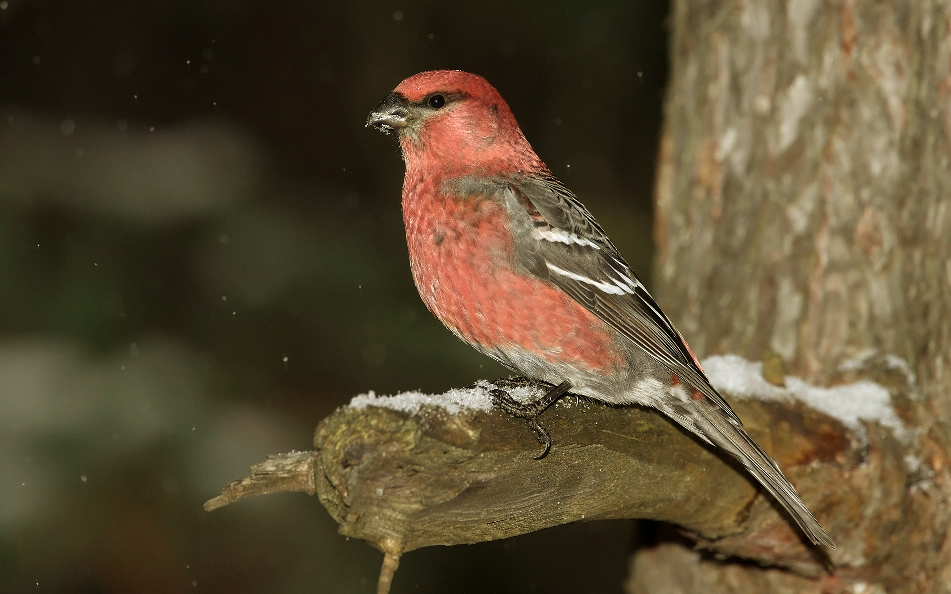 Pine Grosbeak, Algonquin Provincial Park, 2007 December